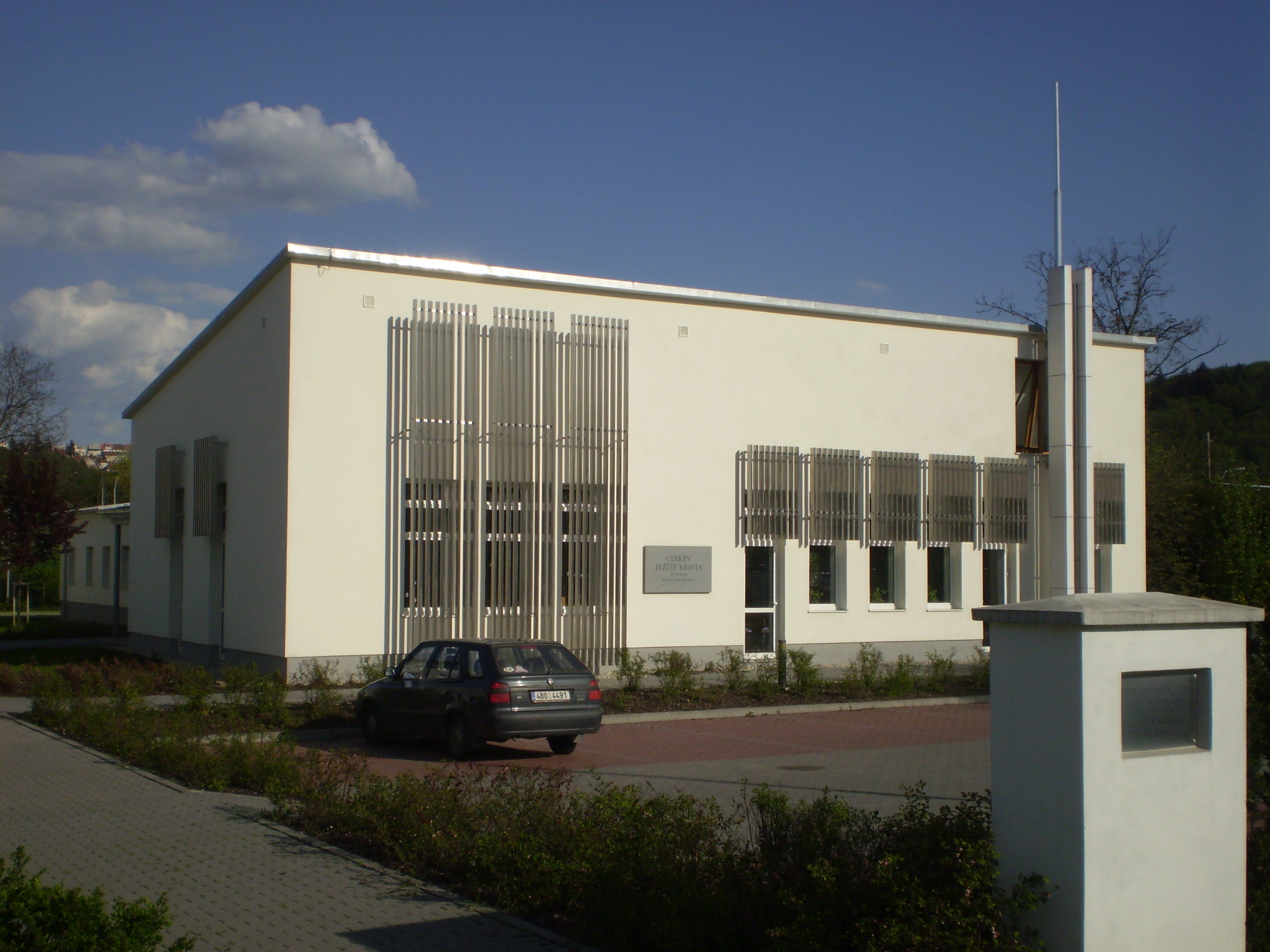 Meetinghouse of The Church of Jesus Christ of Latter-day Saints in Brno (Stránského 3131/41, Brno-Žabovřesky, Sochor Street) Czech Republic.